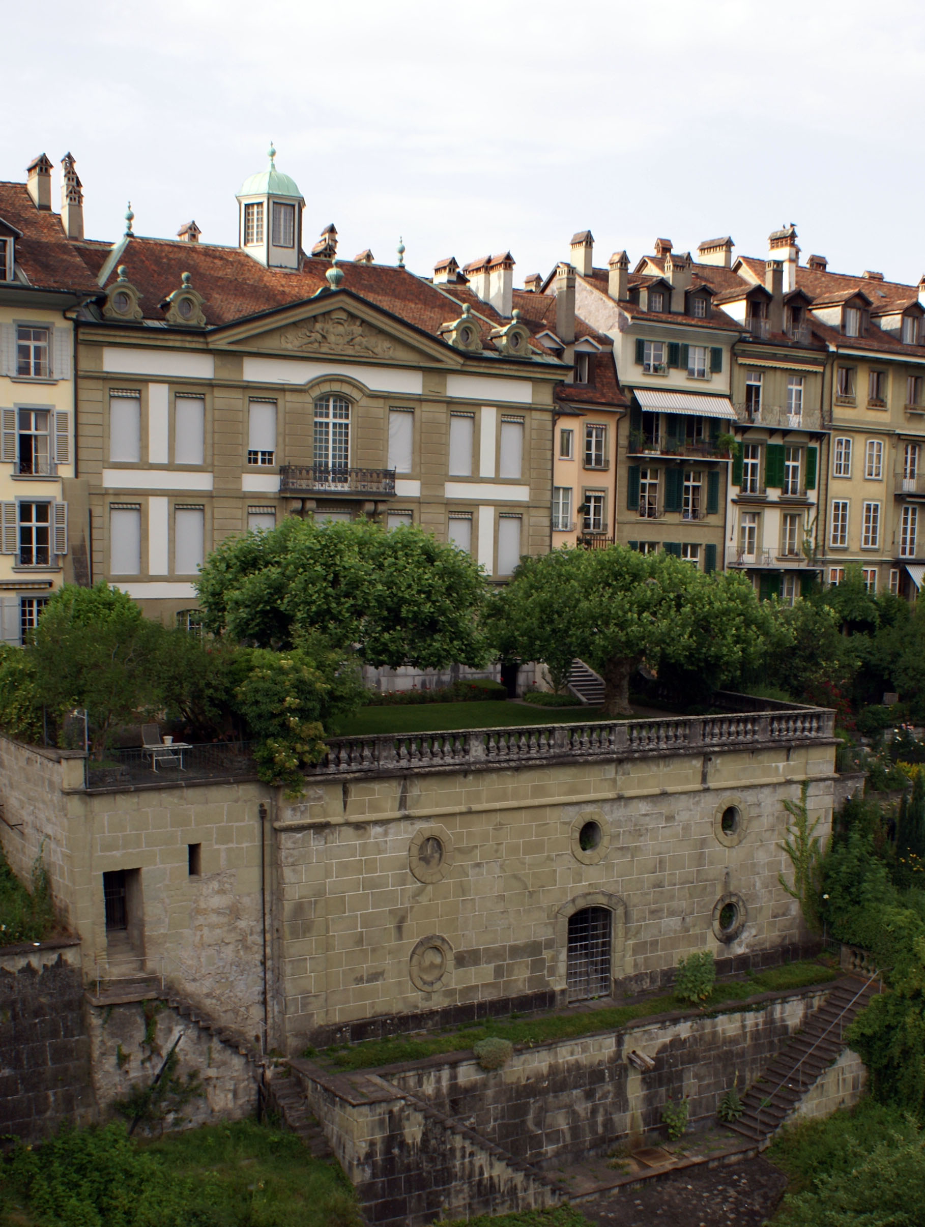 Junkerngasse 59, Berne, Switzerland; the Béatrice-von-Wattenwyl-Haus. South face photographed from the Münsterplattform.